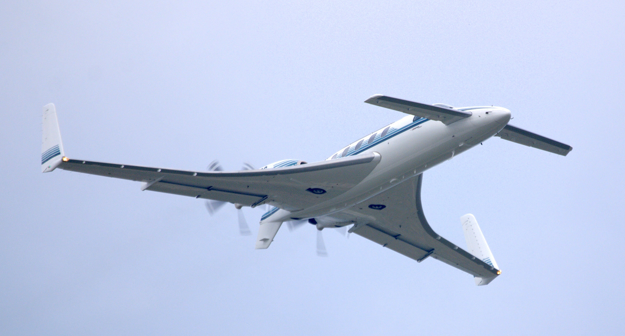 A Beech Starship in flight, photographed during the 2011 AirVenture airshow.